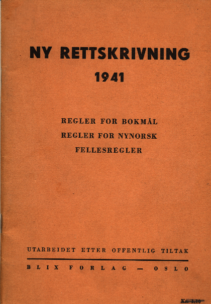 Norwegian glossary for school use, conforming to the Nazi language reform (1941)